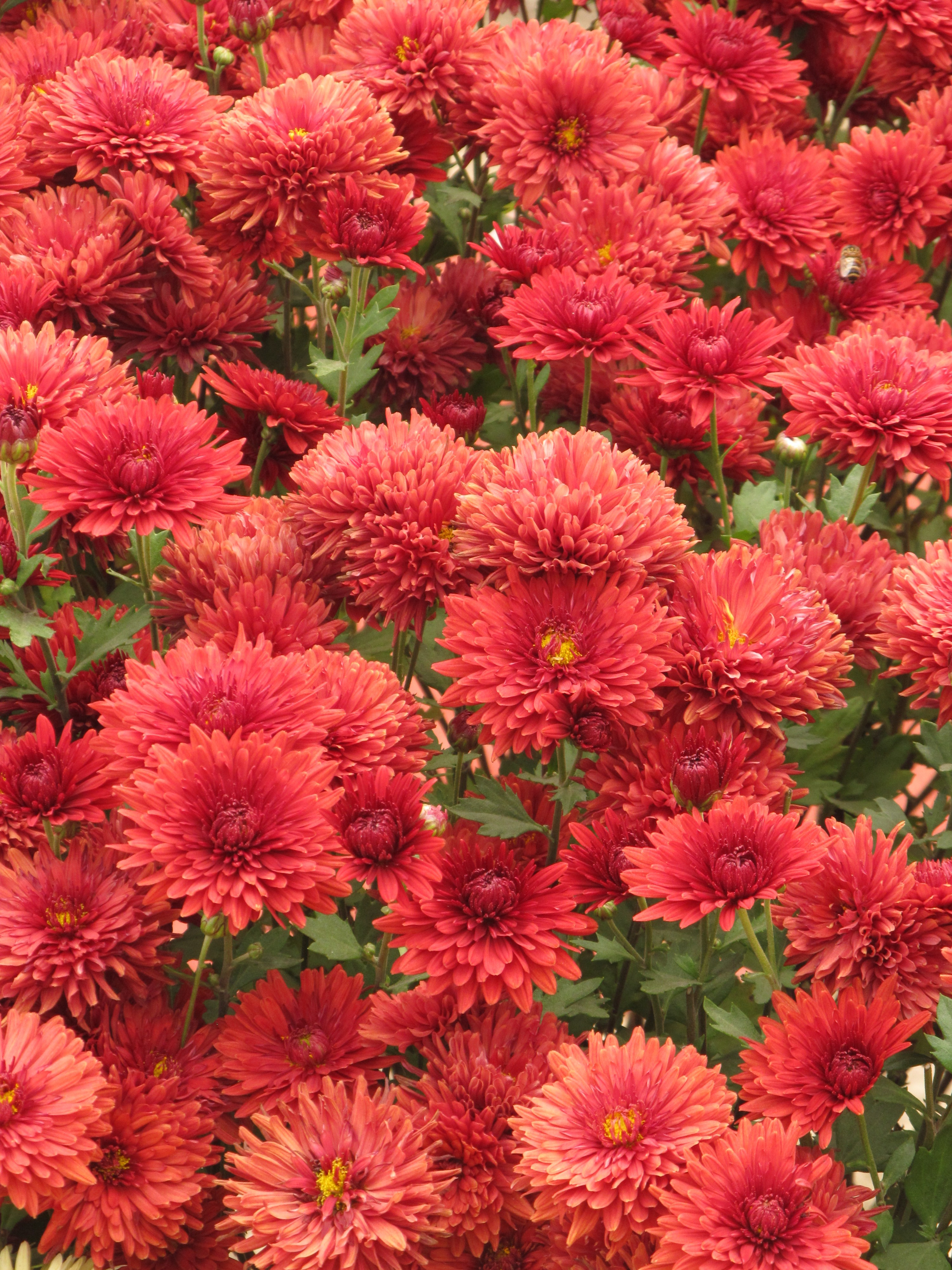 Common name: Chrysanthemum. Hindi: चंद्रमल्लिका Chandramallika. Manipuri: চন্দ্রমুখী Chandramukhi. Tamil: சாமந்தி Saamandi, ஜவந்தி Javandi. Bengali: Chandramallika. Botanical name: Chrysanthemum indicum Family: Asteraceae (Sunflower family) Chrysanthemum is a genus of about 30 species of perennial flowering plants in the family Asteraceae, native to Asia and northeastern Europe. Amongst florists and in the floral industry, they are commonly referred to as "mums". The genus once included many more species, but was split several decades ago into several genera; the naming of the genera has been contentious, but a ruling of the International Code of Botanical Nomenclature in 1999 has resulted in the defining species of the genus being changed to Chrysanthemum indicum, thereby restoring the economically important florist's chrysanthemum to the genus Chrysanthemum. These species were, after the splitting of the genus but before the ICBN ruling, commonly treated under the genus name Dendranthema. The species of Chrysanthemum are herbaceous perennial plants growing to 50-150 cm tall, with deeply lobed leaves and large flowerheads, white, yellow or pink in the wild species. They belong to the Sunflower family, Compositae. Their flowers come in every color except blue. Their blooms come in a huge variety of shapes and sizes.